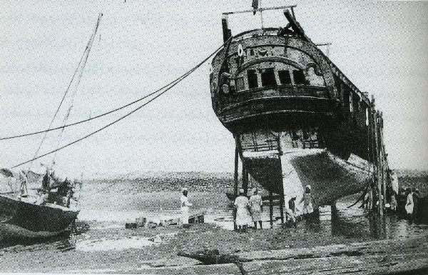 Baghala in Kuwait with characteristic stern.